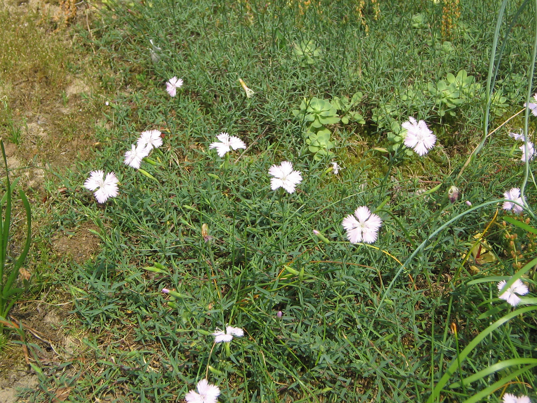 Dianthus gallicus in cultivation